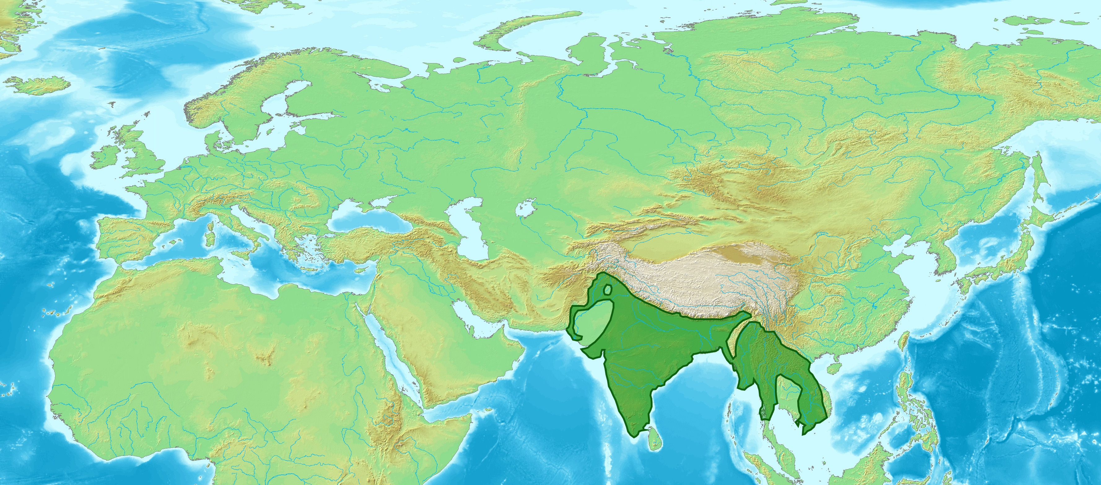 Distribution of the Rufous Treepie (Dendrocitta vagabunda) according to Steve Madge, Hilary Burn: Crows & Jays. Princeton University Press, Princeton 1994. ISBN 0-691-08883-7.